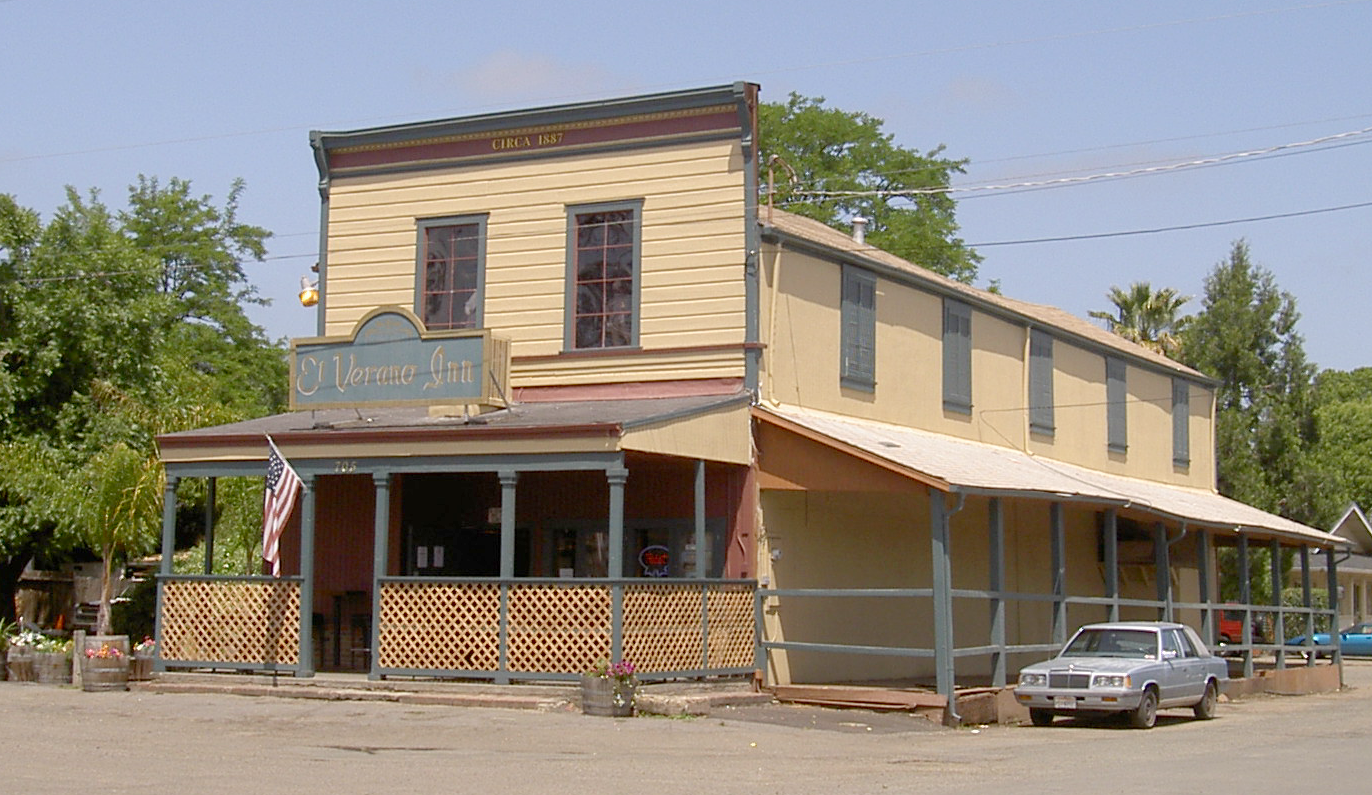 The historic El Verano Inn building in El Verano, Sonoma County, California, viewed from the southeast